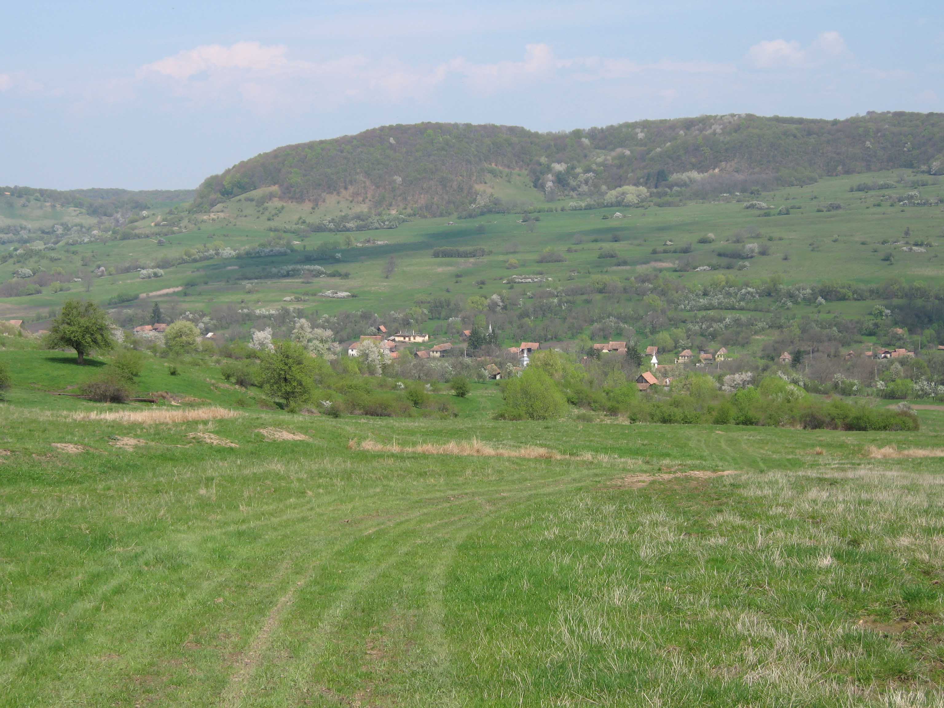 Şapartoc from the country path to Sighişoara